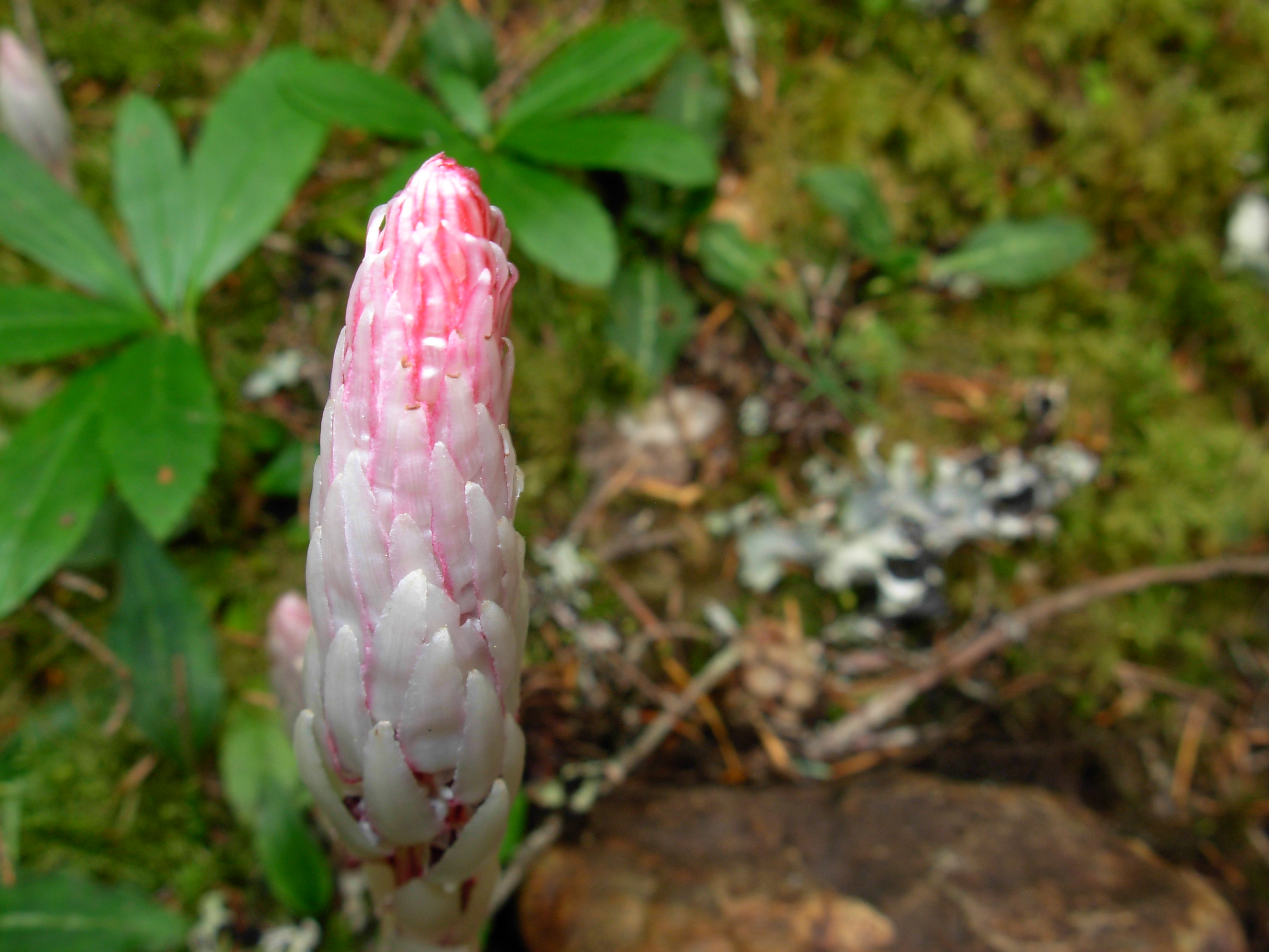 Allotropa virgata Candystick, Barber's Pole, Sugarstick Kingdom: Plantae Division: Magnoliophyta Class: Magnoliopsida Order: Ericales Family: Ericaceae Genus: Allotropa Binomial name Allotropa virgata Torr. & Gray An interesting fact from "Allotropa, candy cane, is a parasite which indicates Matsutake mycelia. It feeds on the mycelia, taking the nutrients it needs. The mycelia must be present if the "plant" is. Allotropa has been noted with all host trees wherever Matsutake grows in the Pacific Northwest. " i062208 221